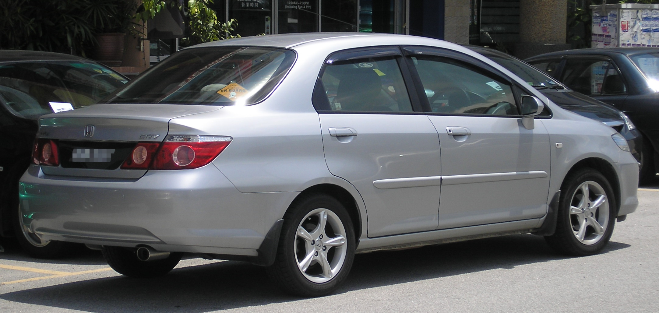 Rear-side shot of a fourth generation, first facelifted Honda City, in Serdang, Selangor, Malaysia.